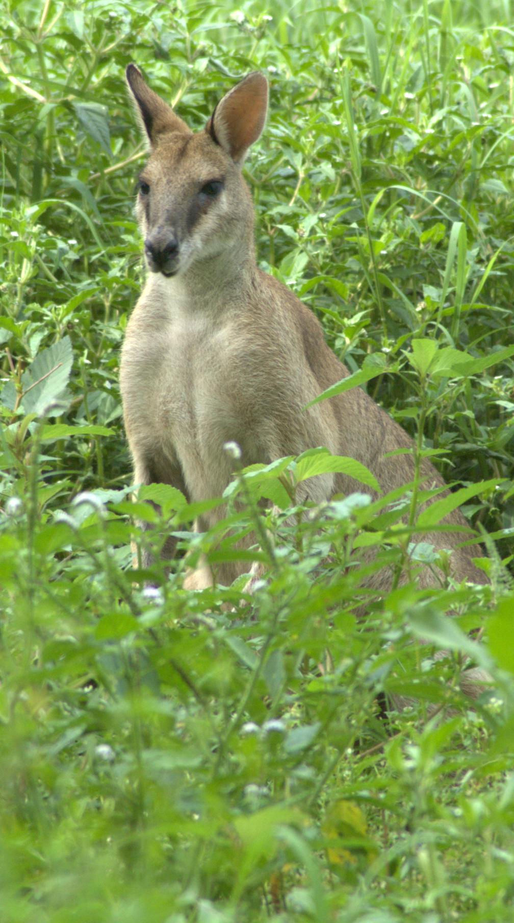 Agile Wallaby Macropus agilis in Northern Territory, Australia. December 2005.